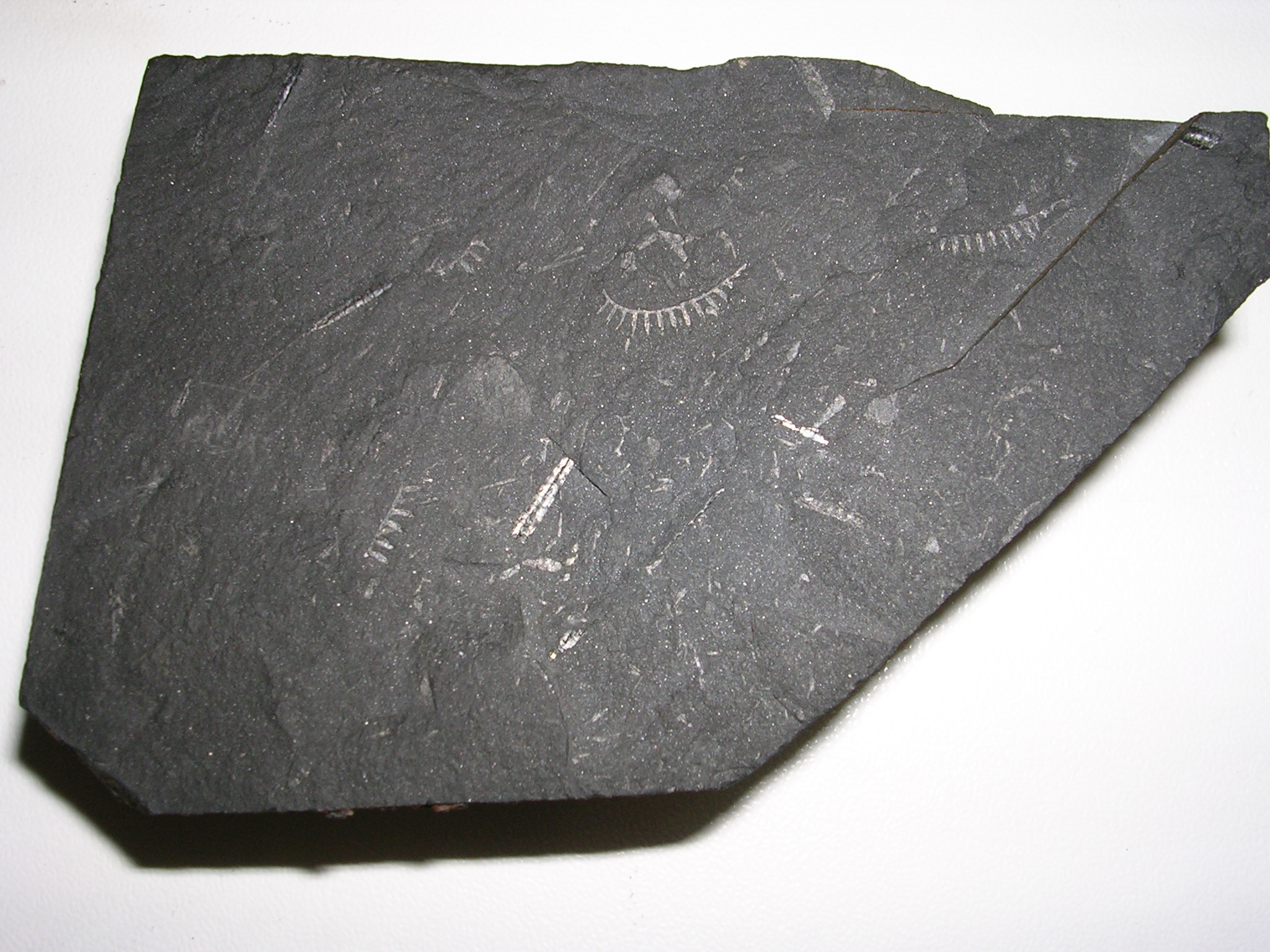 Rastrites peregrinus & Climacograptus sp. fossils (Silúrico inferior), founded in Dob's Linn, Moffat (Scotland), in a laboratory of practices of the Faculty of Sciences of the University of Corunna.